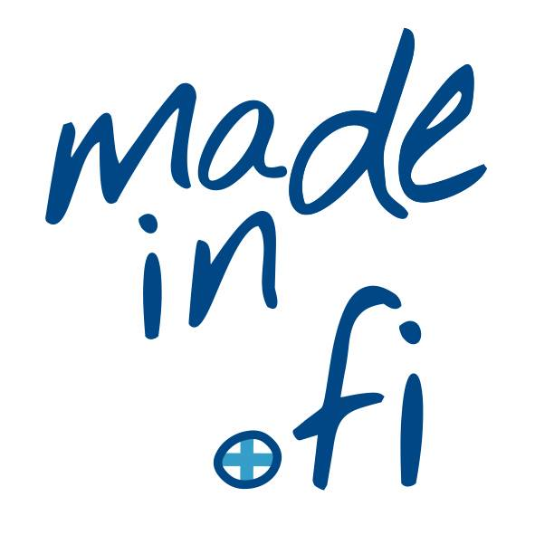 .fi domain logo